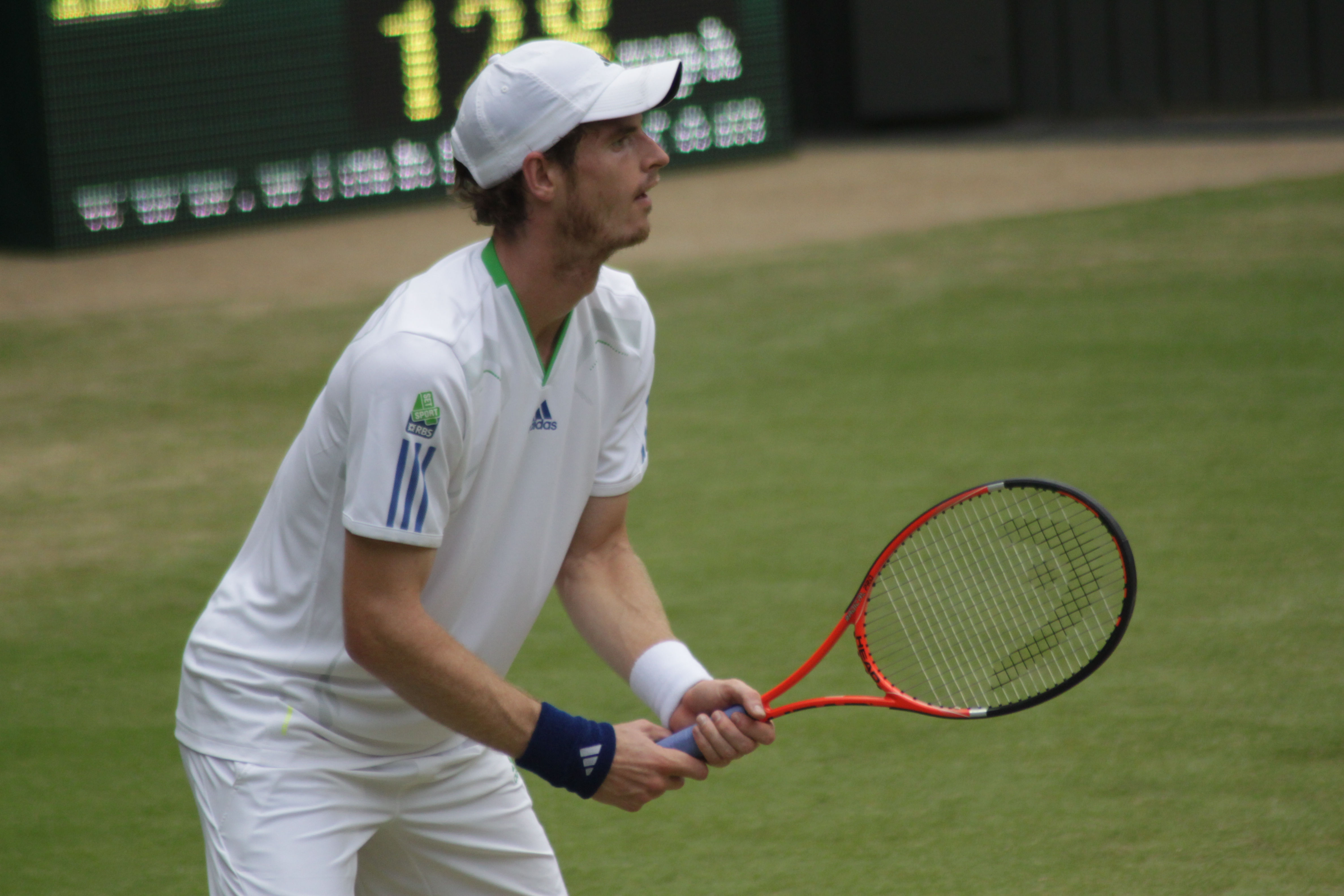 Andy Murray at the 2011 Wimbledon Championships.